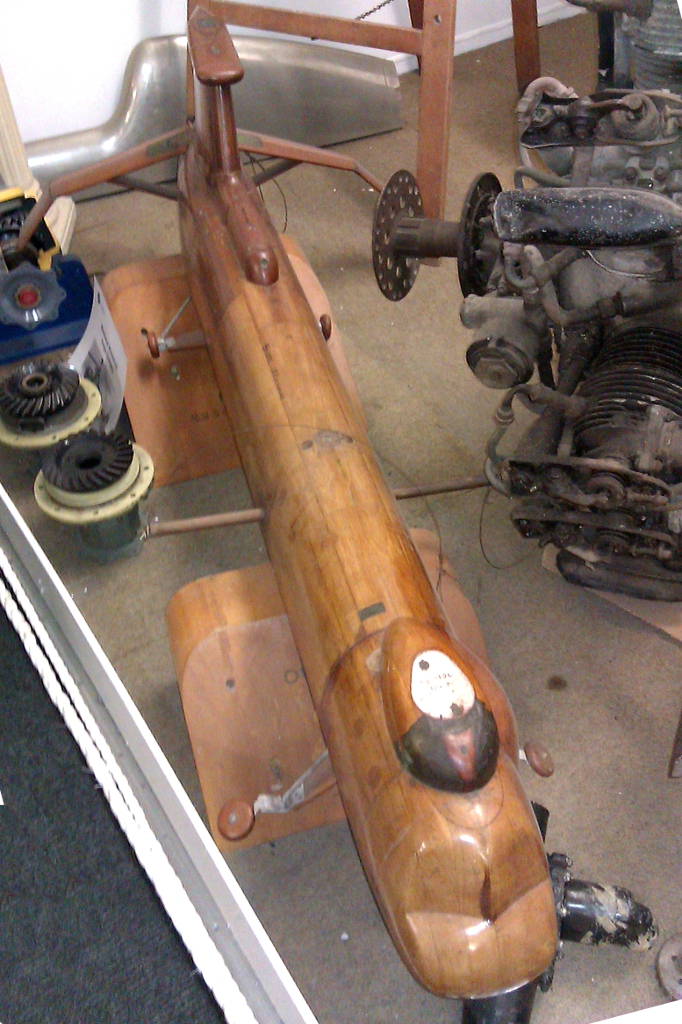 Wooden wind tunnel model of the Bristol Type 192 "Belvedere" helicopter. On display at The Helicopter Museum, Weston-Super-Mare.